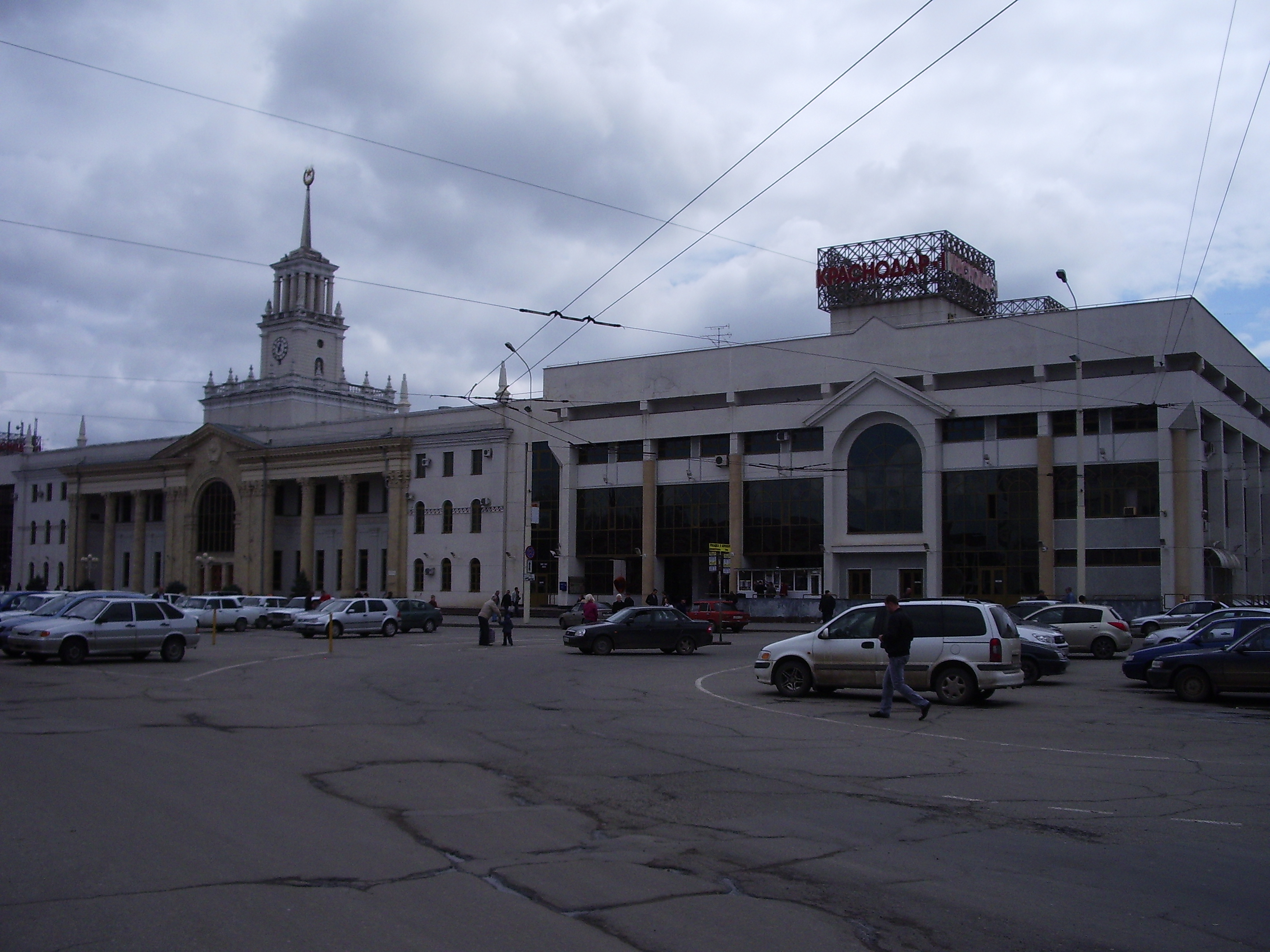 Krasnodar 1 - railway station